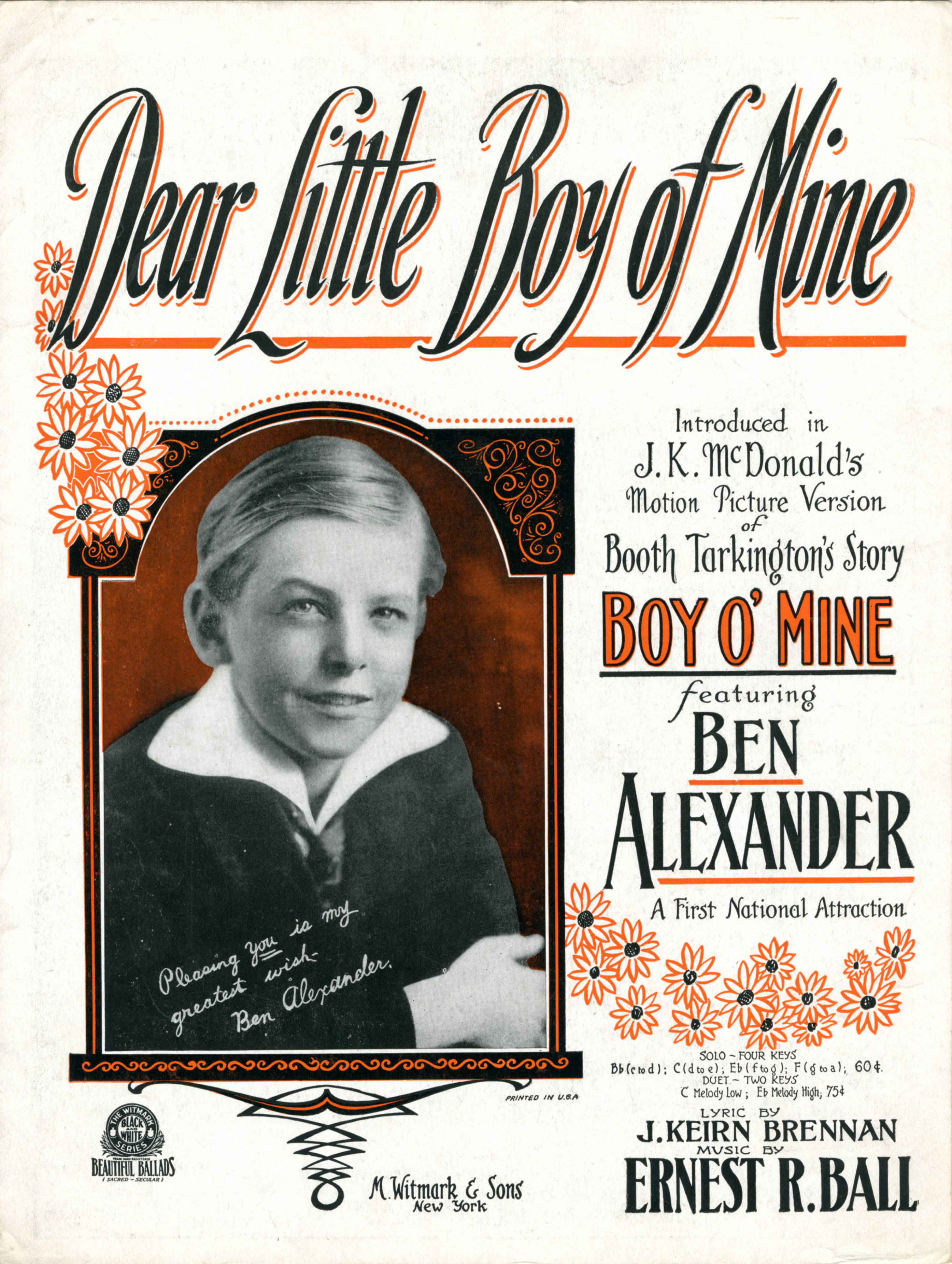 Sheet music cover: "Dear Little Boy Of Mine" 1 vocal score (4 p.) ; 32 cm. Illustrated cover with image of Ben Alexander. Boy of Mine (Motion picture : 1923)